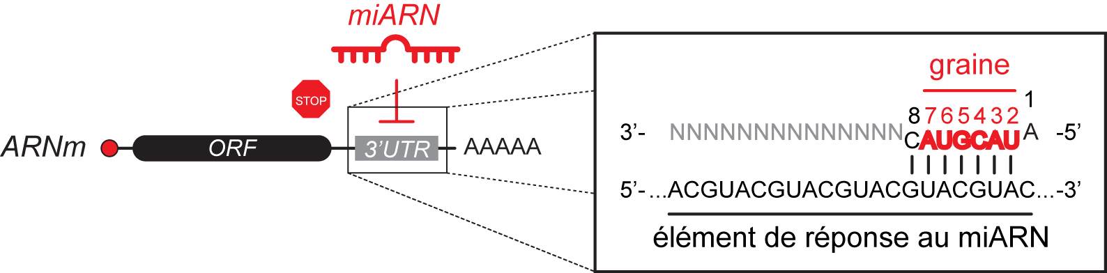 Schematic representation of a canonical interaction between a miRNA and its mRNA target.